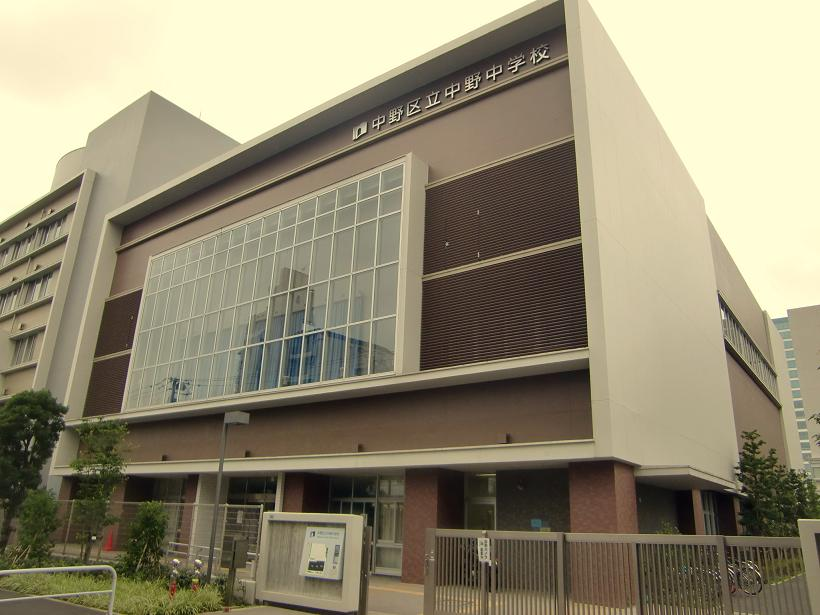 Nakano Junior High School in Nakno Tokyo, Japan